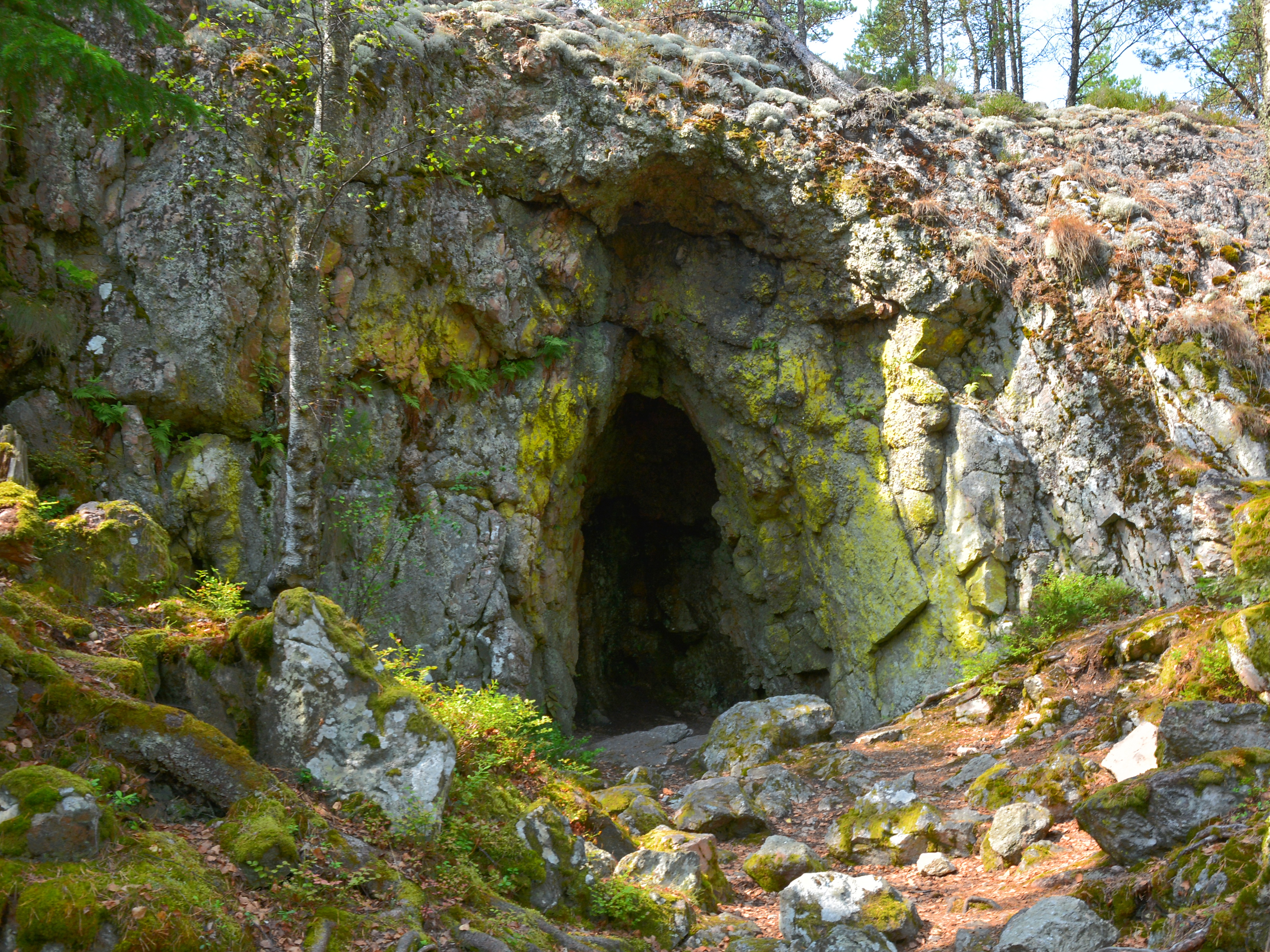 Queens Cave at Nåttarö, Stockholm archipelago, Sweden.